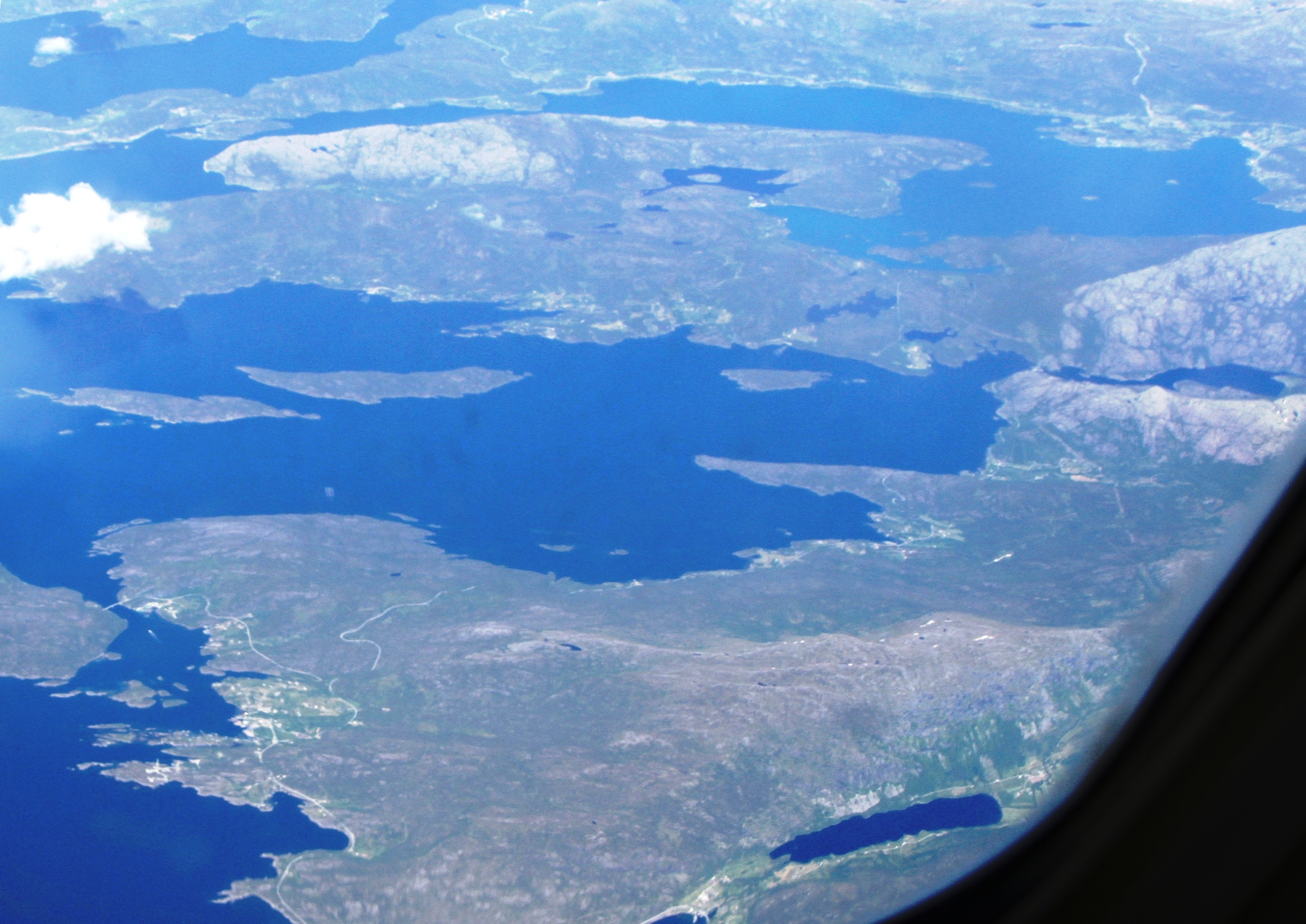 Aerial view from the south / southwest, of the coastal parts of the municipality of Flora, Sogn & Fjordane fylke (county), western Norway.